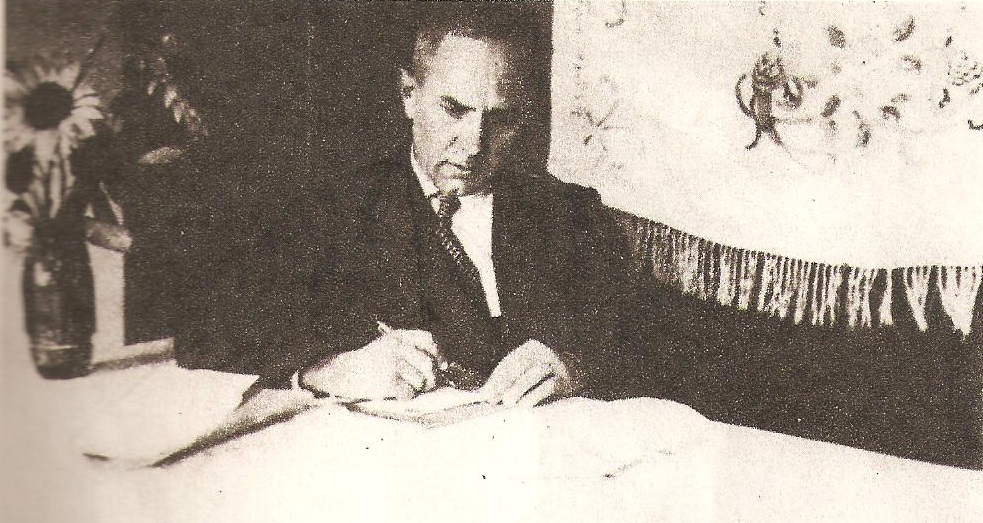 Aleksander Perycz - the warsaw uprising insurgent